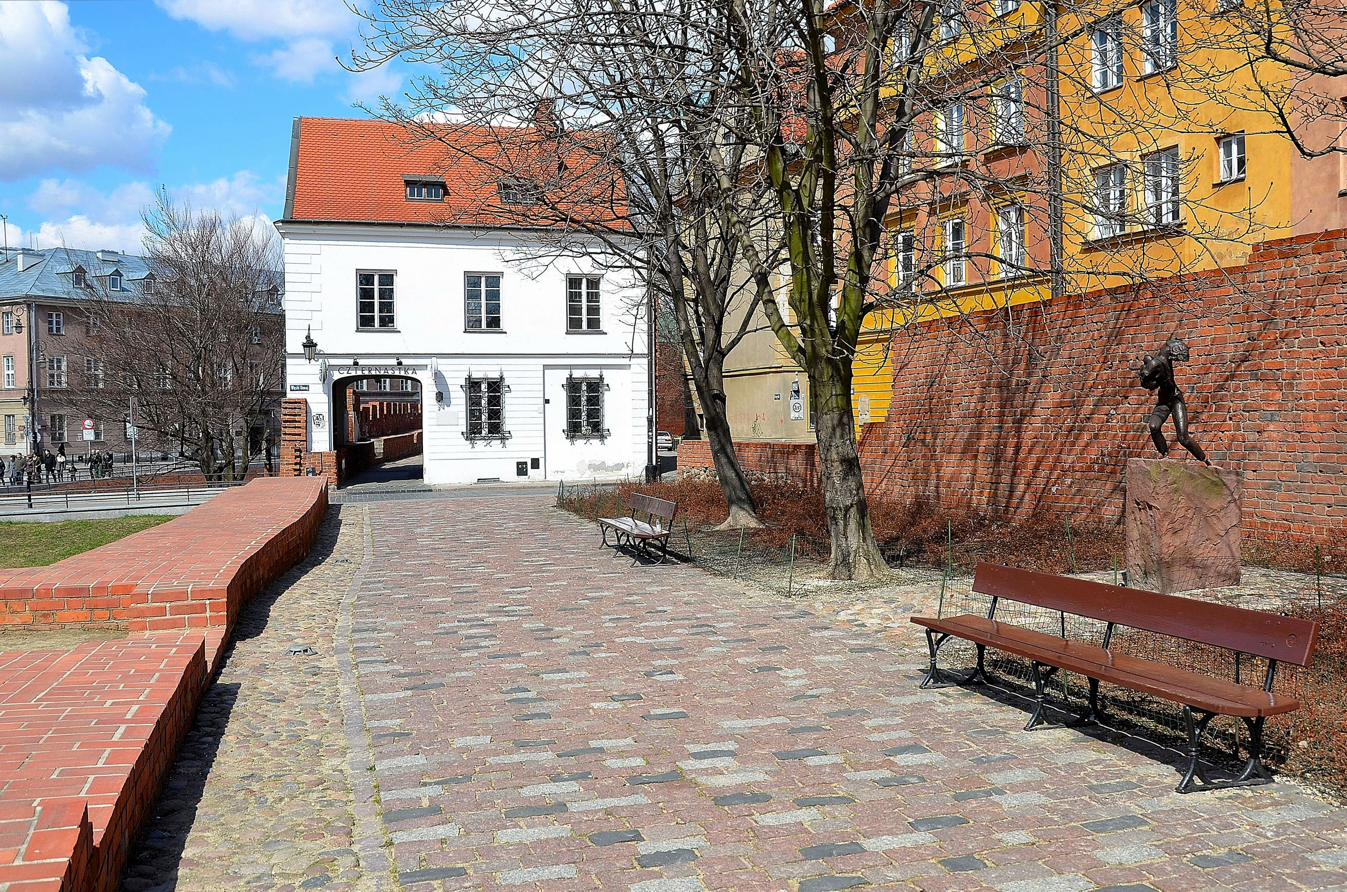 "Oświęcim II" statue in Warsaw, view towards Wąski Dunaj Street